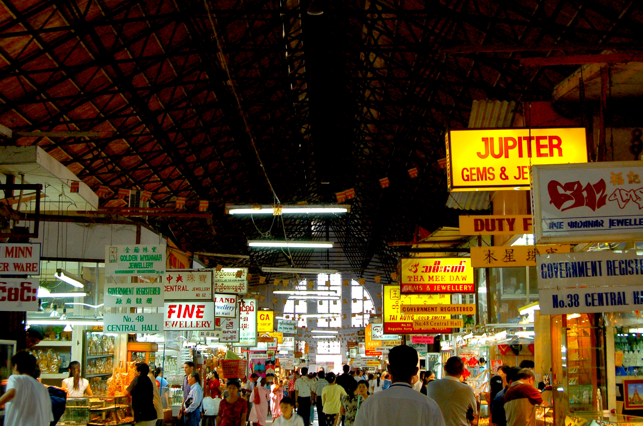 Jewellery Market, Yangon, Myanmar